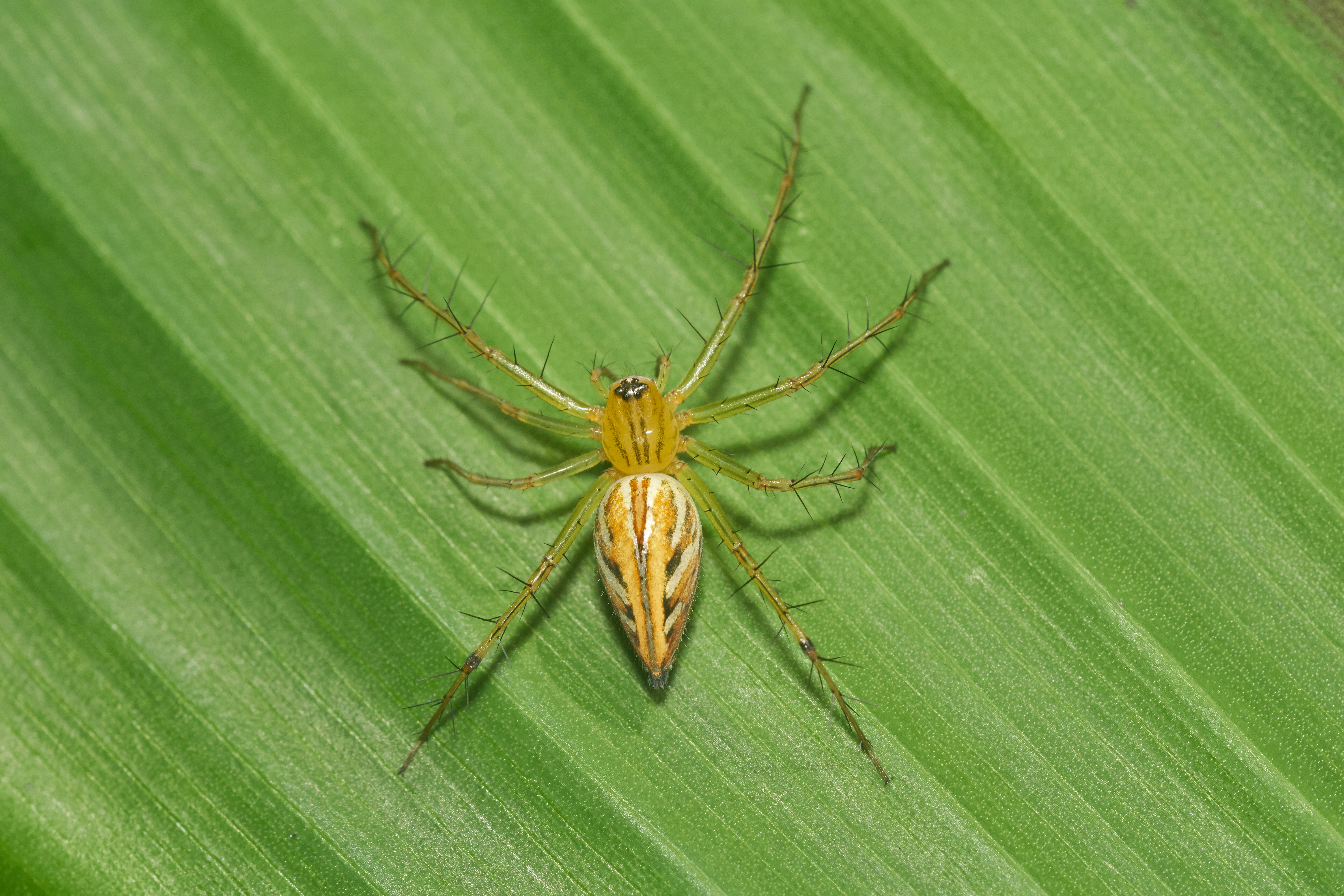 Oxyopes javanus is a spider in the family Oxyopidae, commonly known as Lynx spiders.